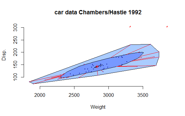 Bagplot created in R